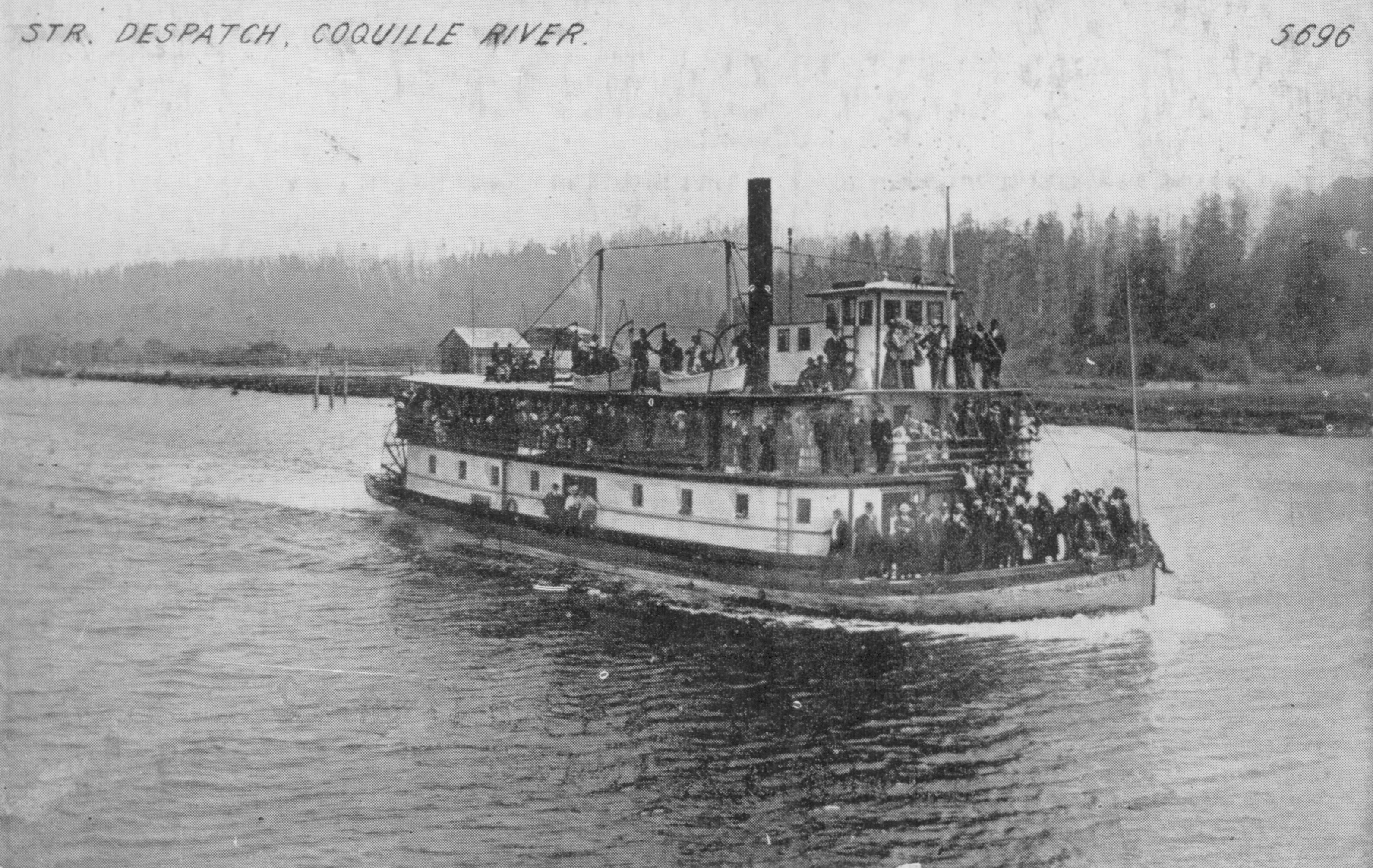 Scan of old postcard, no copyright notice, divided back, no white border, so appears to have been published between 1907 and 1914. Steamer depicted was rebuilt under a different name in 1922, this is consistent with 1907-1914 publication period.